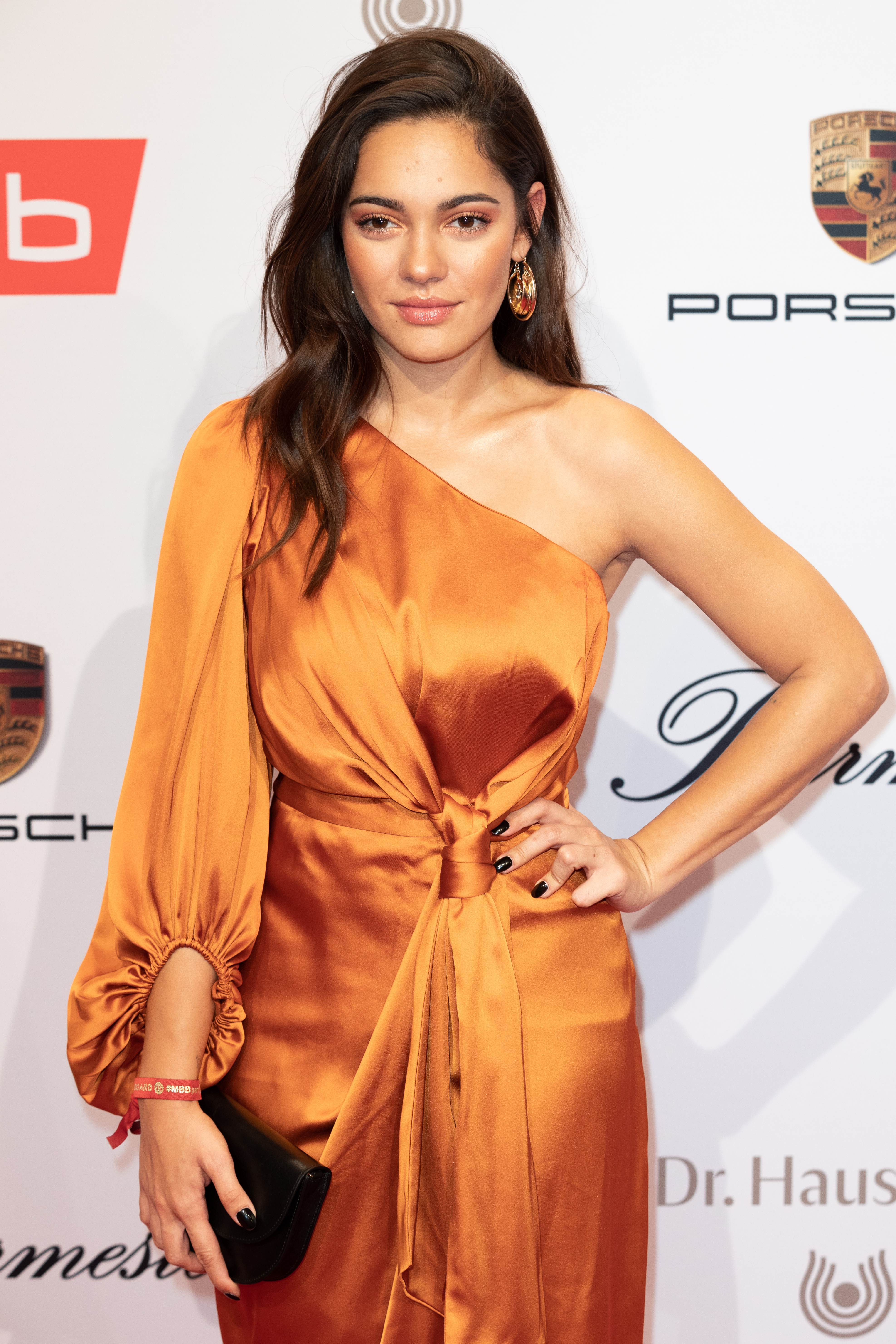 Nilam Farooq at the Medienboard Party on the occasion of the 69th Berlinale in Ritz-Carlton, Potsdamer Platz